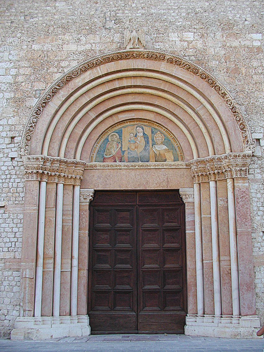 L'Aquila, Basilica di Santa Maria di Collemaggio. Side portal.